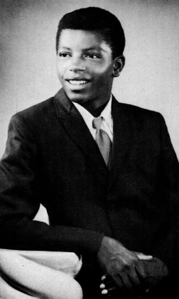 Trade ad for Carl Carlton's single "Competition Ain't Nothing".To better adapt it to his respective Wikipedia article, the ad was cropped and cleaned in a graphics editing program. The original can be viewed at the source below.